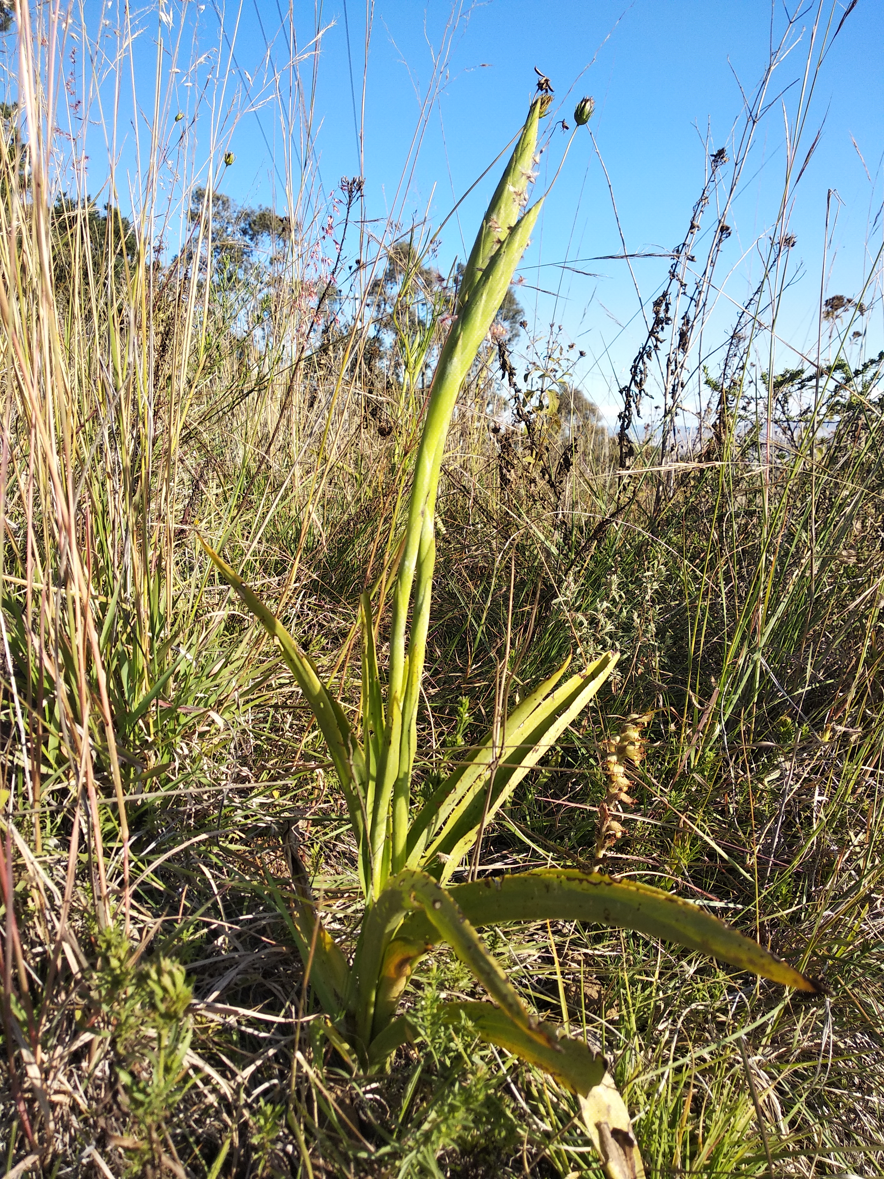 Dichromanthus michuacanus is a terrestrial orchid native of Mexico and the SW United States. It only displays aerial parts from late summer to mid-winter. These specimens are a few weeks away from flowering. This photo was taken at cerro Zapotecas, in Cholula, Puebla, Mexico.